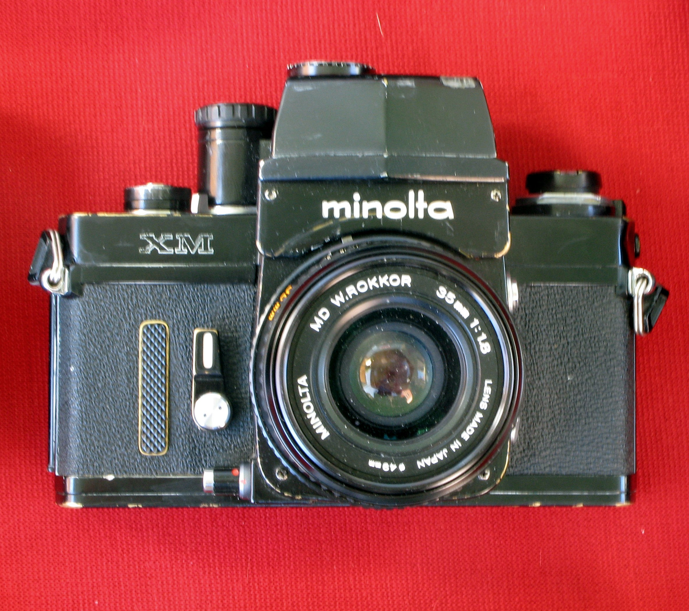 Minolta XM